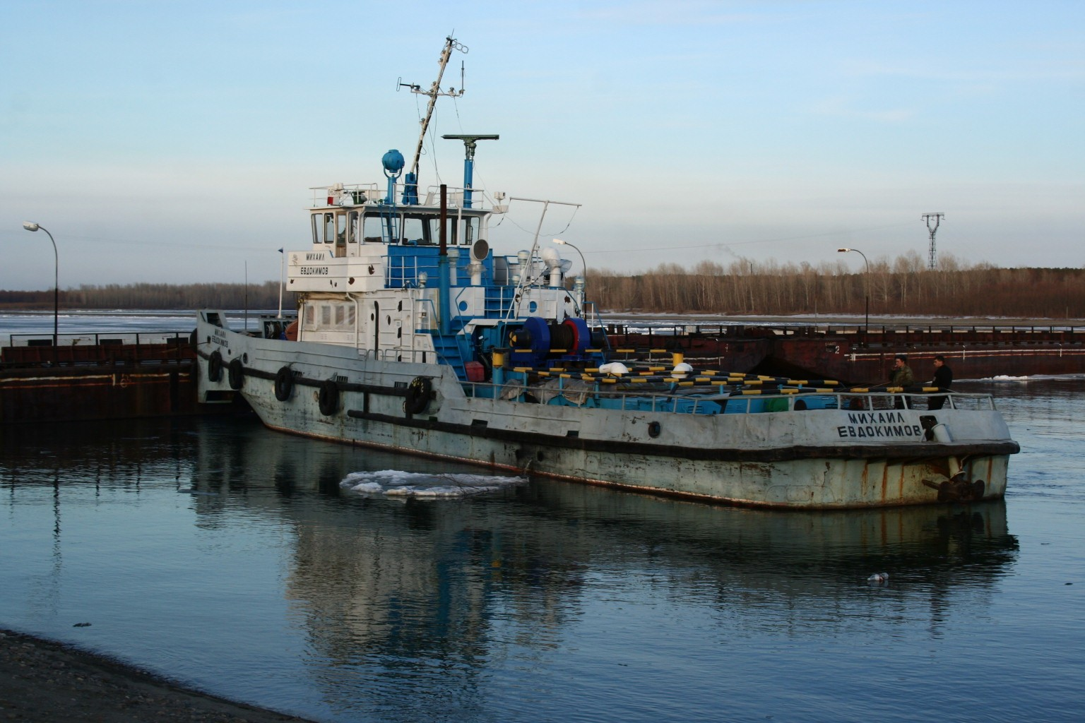 River ship type RT